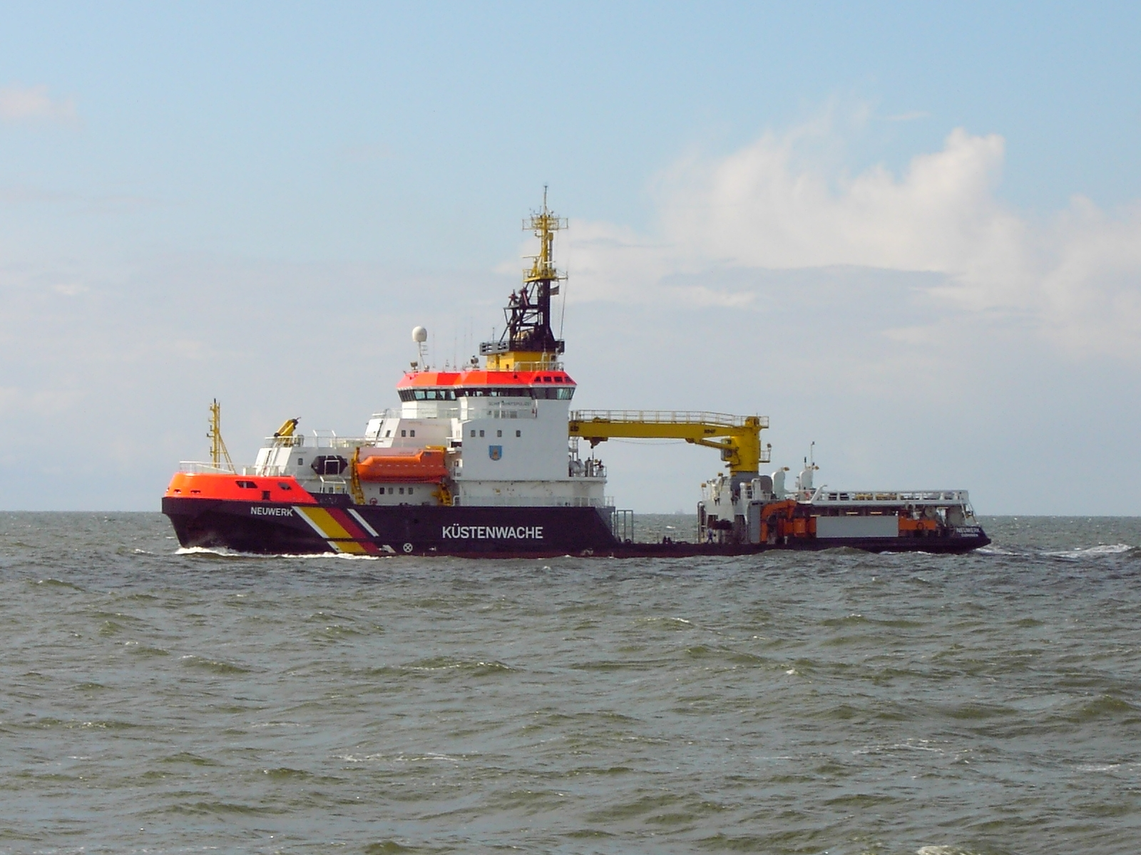 the "Neuwerk" IMO number : 9143984 Call Sign : DBJM Gross tonnage : 3422 Year of build : 1998